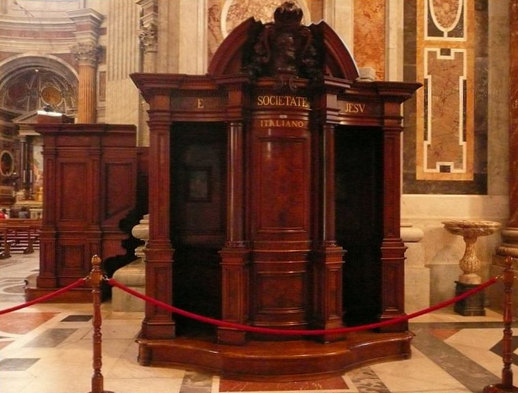 Confessional in the Basilica of Saint Paul Outside the Walls, Vatican